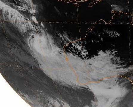 Satellite image of Tropical Cyclone Herbie approaching Western Australia on 20 May 1988